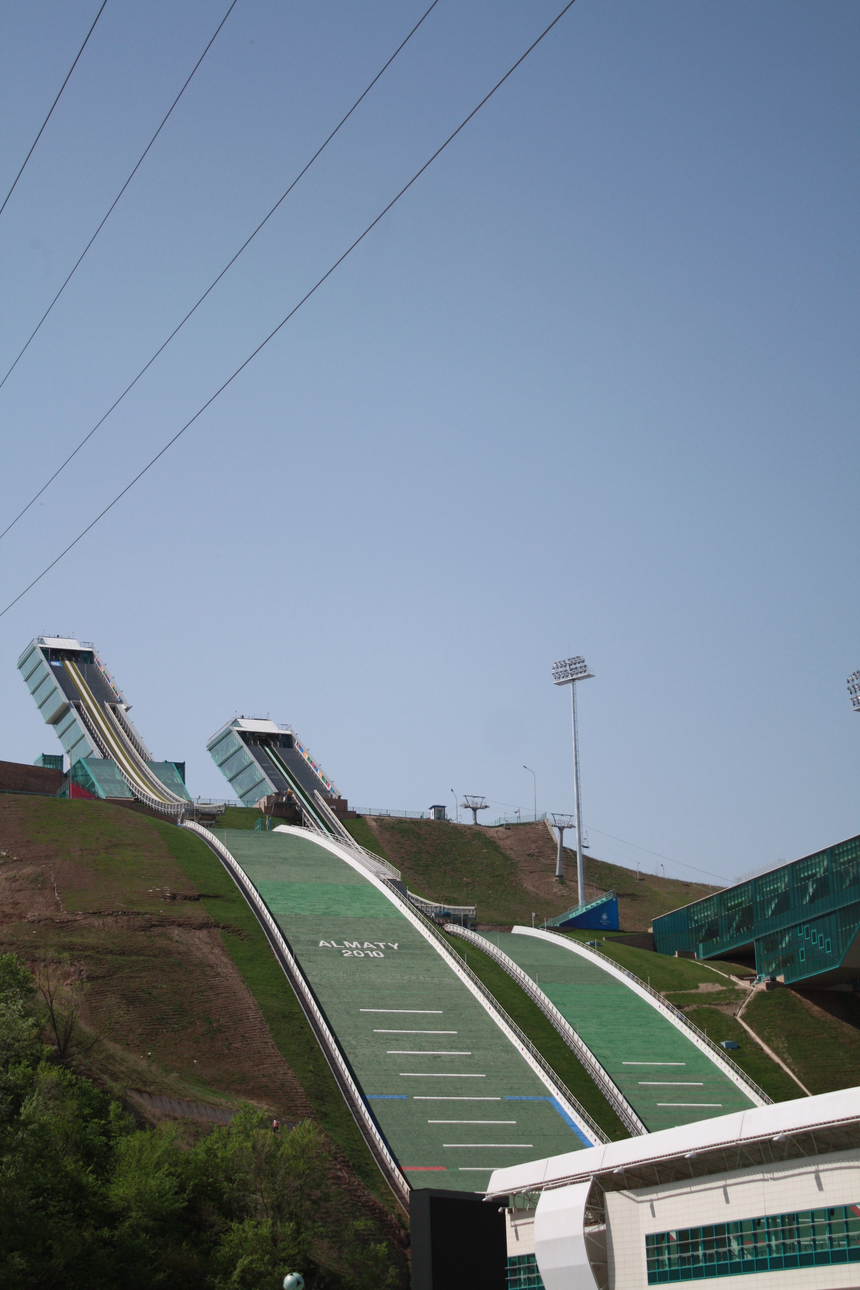 Ski Jump specially built for Asian Winter Games 2010